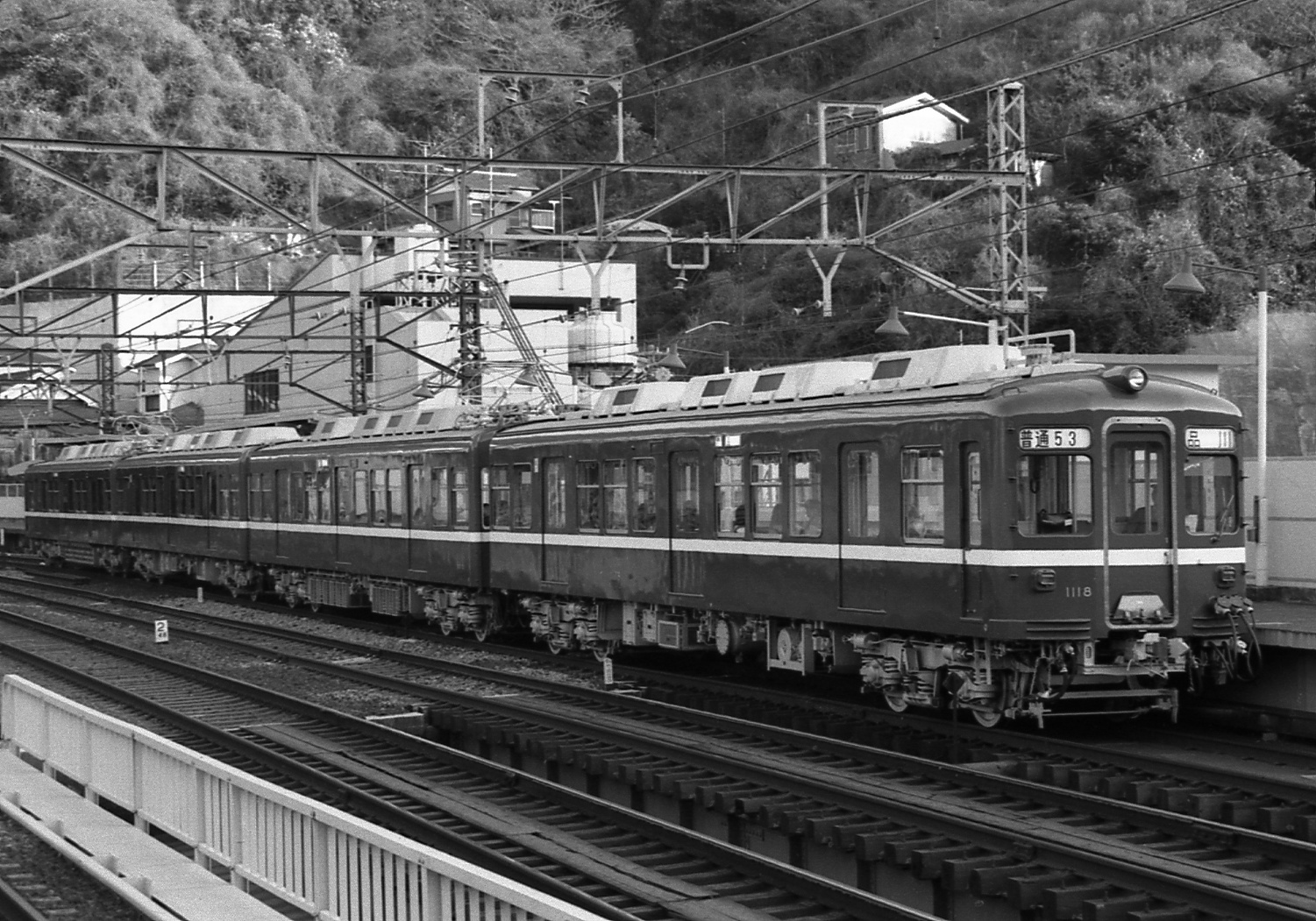 Keikyu 1113 at Hemi Station; just after the refurbishment